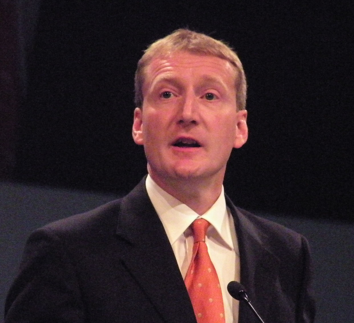 Tavish Scott MSP addressing a Liberal Democrat conference in the Bournemouth International Centre